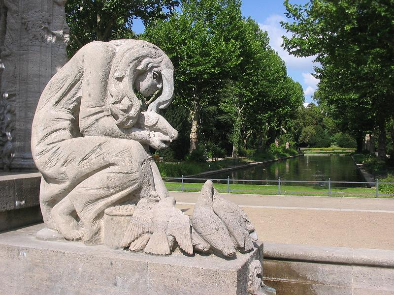 Limestone-sculpture „Aschenputtel“ (cinderella) in the Schulenburgpark in Berlin-Neukölln, created on the occasion of the restoration of the „Märchenbrunnen“ (german for: tale fountain) in 1970 by the sculptress Katharina Szelinski-Singer.